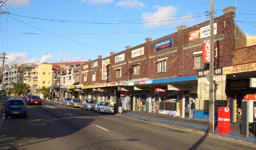 Allawah shops, Sydney, Australia. I took the photo on 18th June 2006. J Bar 00:23, 25 July 2006 (UTC)